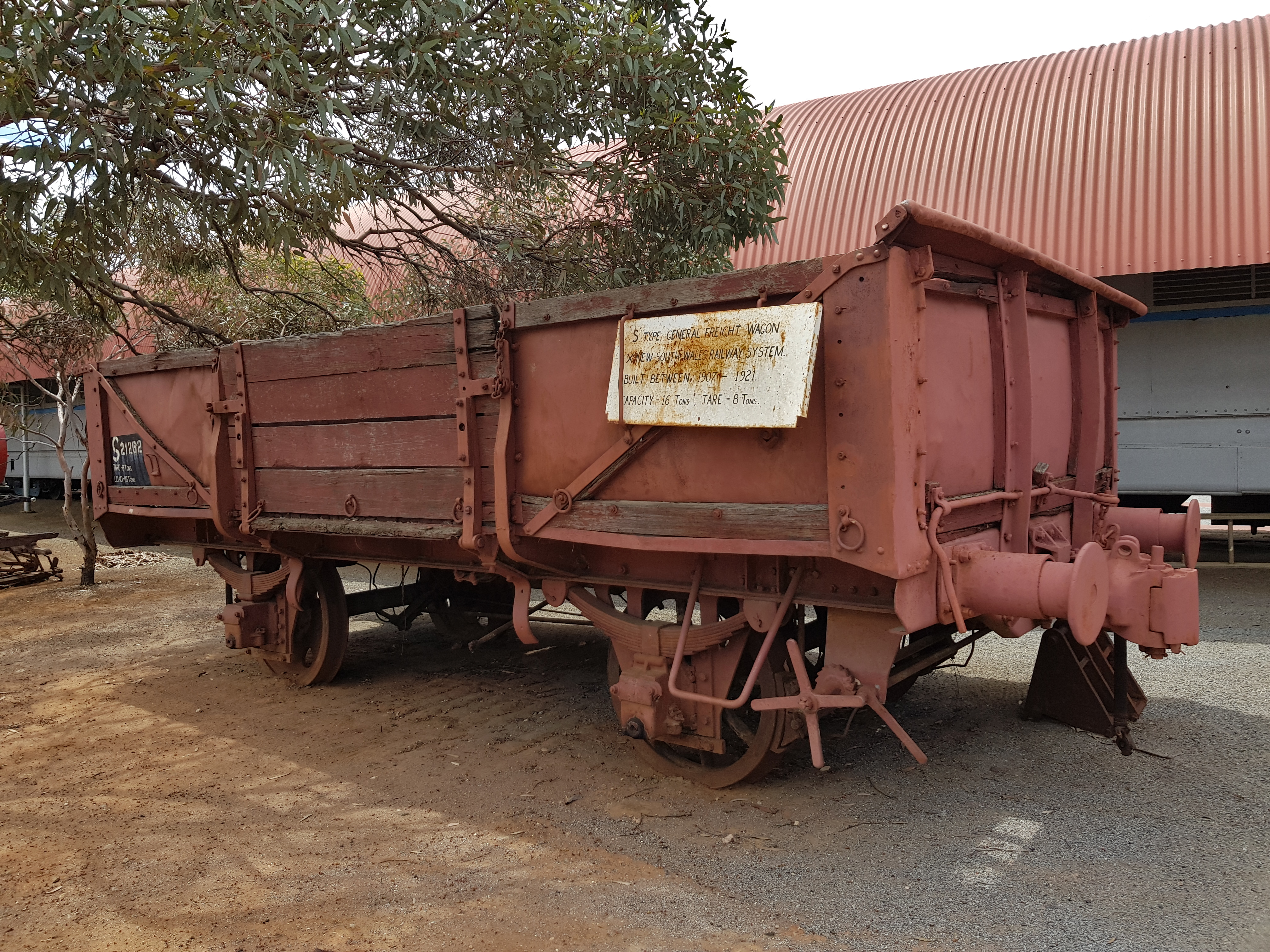 S-type New South Wales Government Rail standard freight car. 16 ton capacity, built 1907-21. On exhibit in the Silverton Tramway Museum.